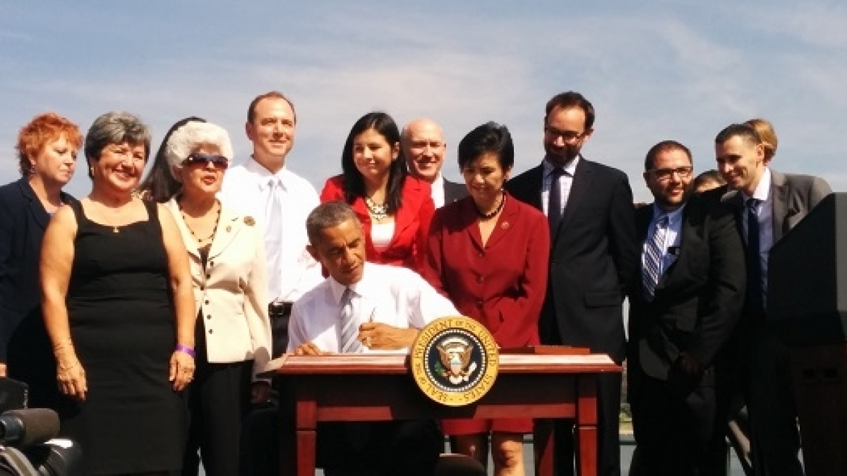 Rep. Chu stood with President Obama as he declared the San Gabriel Mountains a National Monument.